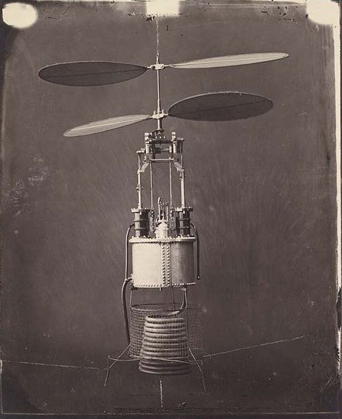 The chère hélice made up by Gustave Ponton d'Amécourt